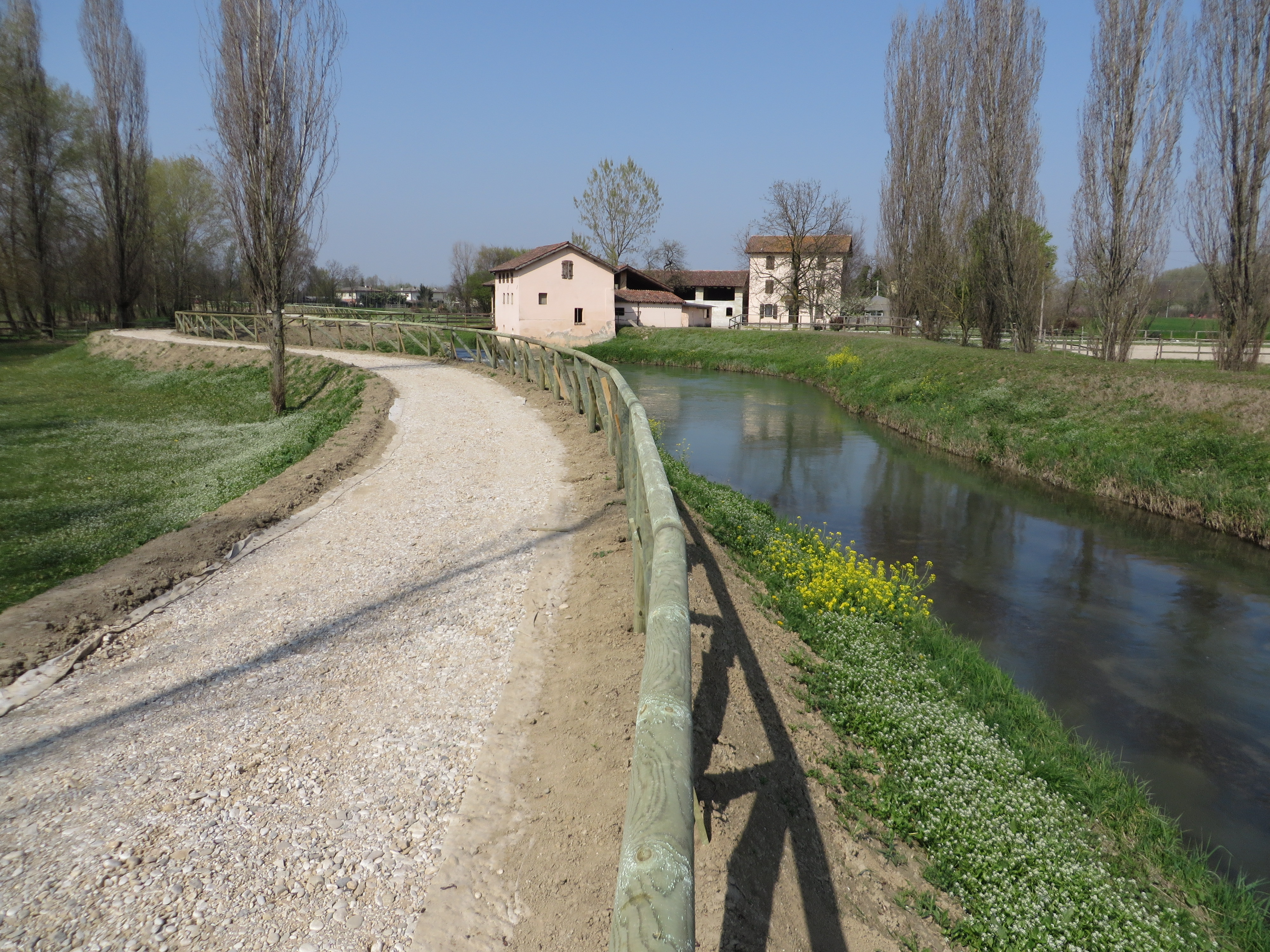 Lungodese a Scorzè e Mulino Michieletto